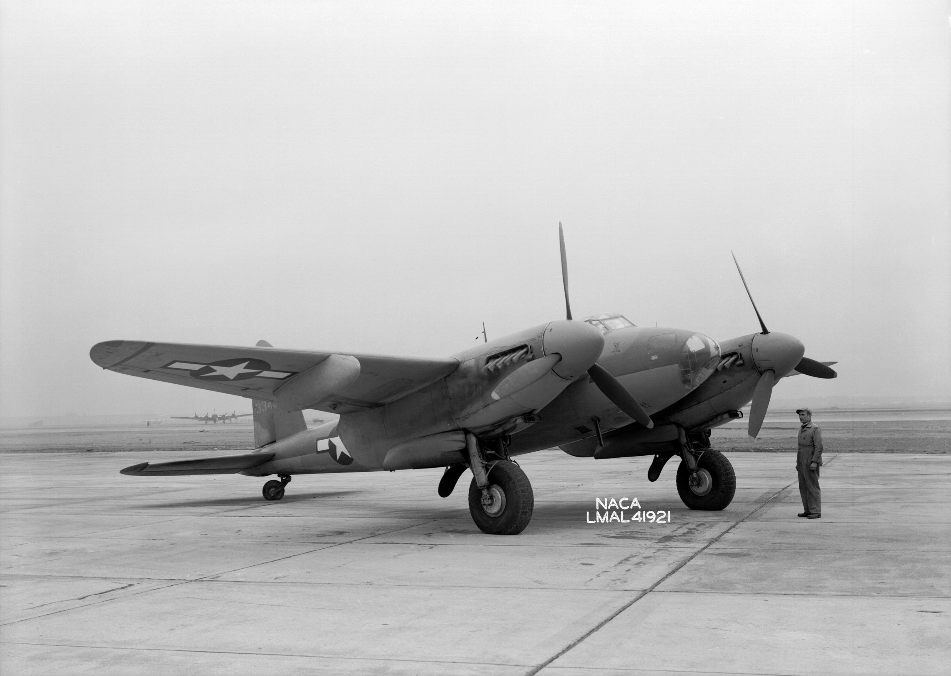 A U.S. Army Air Force De Havilland Canada Mosquito which was flown at the U.S. National Advisory Committee for Aeronautics (NACA) Langley Research Center, Virginia (USA), by test pilot Bill Gray during longitudinal stability and control studies of the aircraft in 1945. This aircraft was originally a Mosquito B Mk XX, the Canadian version of the Mosquito B Mk IV bomber aircraft. 145 were built, of which 40 were converted into photo-reconnaissance aircraft for the USAAF, which designated the planes F-8.